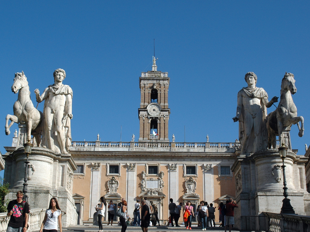 Dioscuri, Rome, Capitol